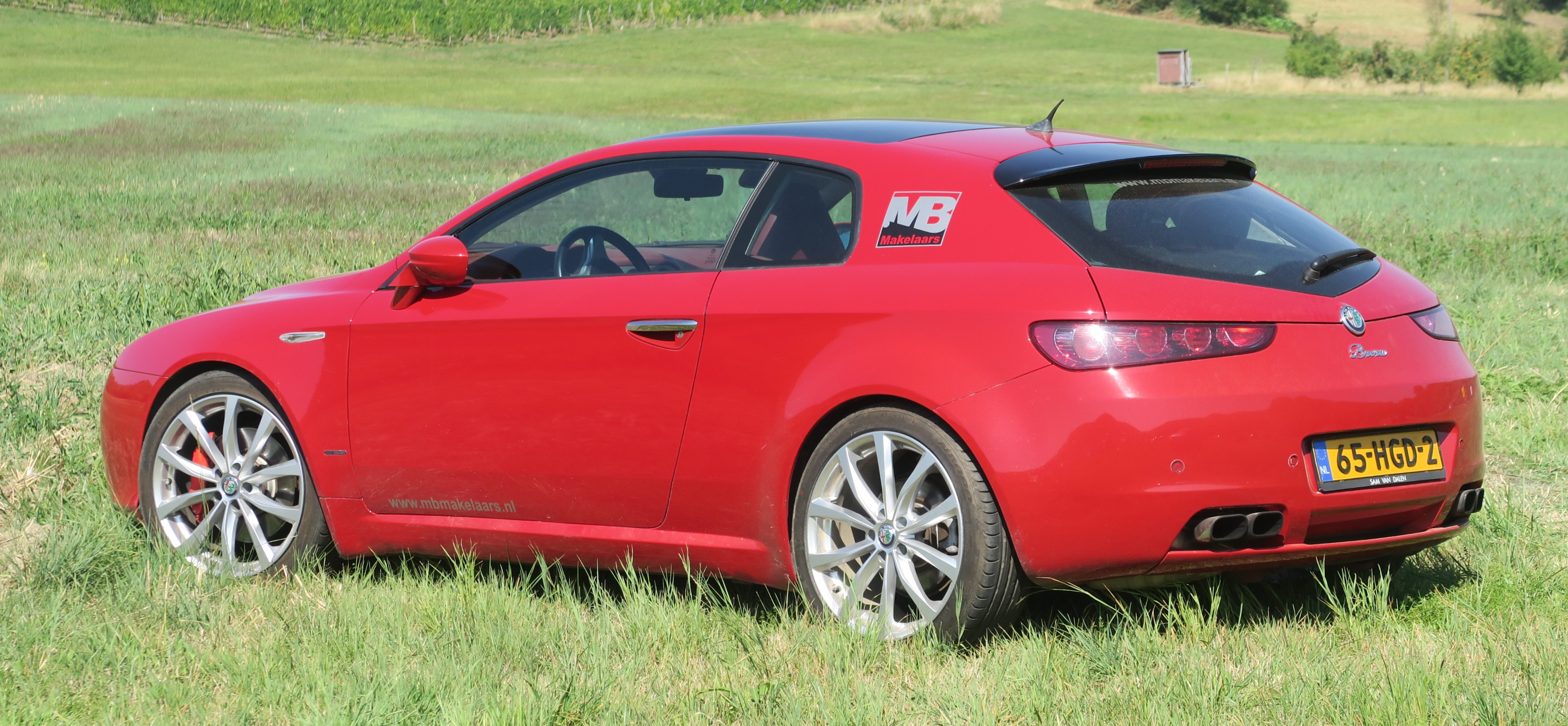 Alfa Romeo Brera